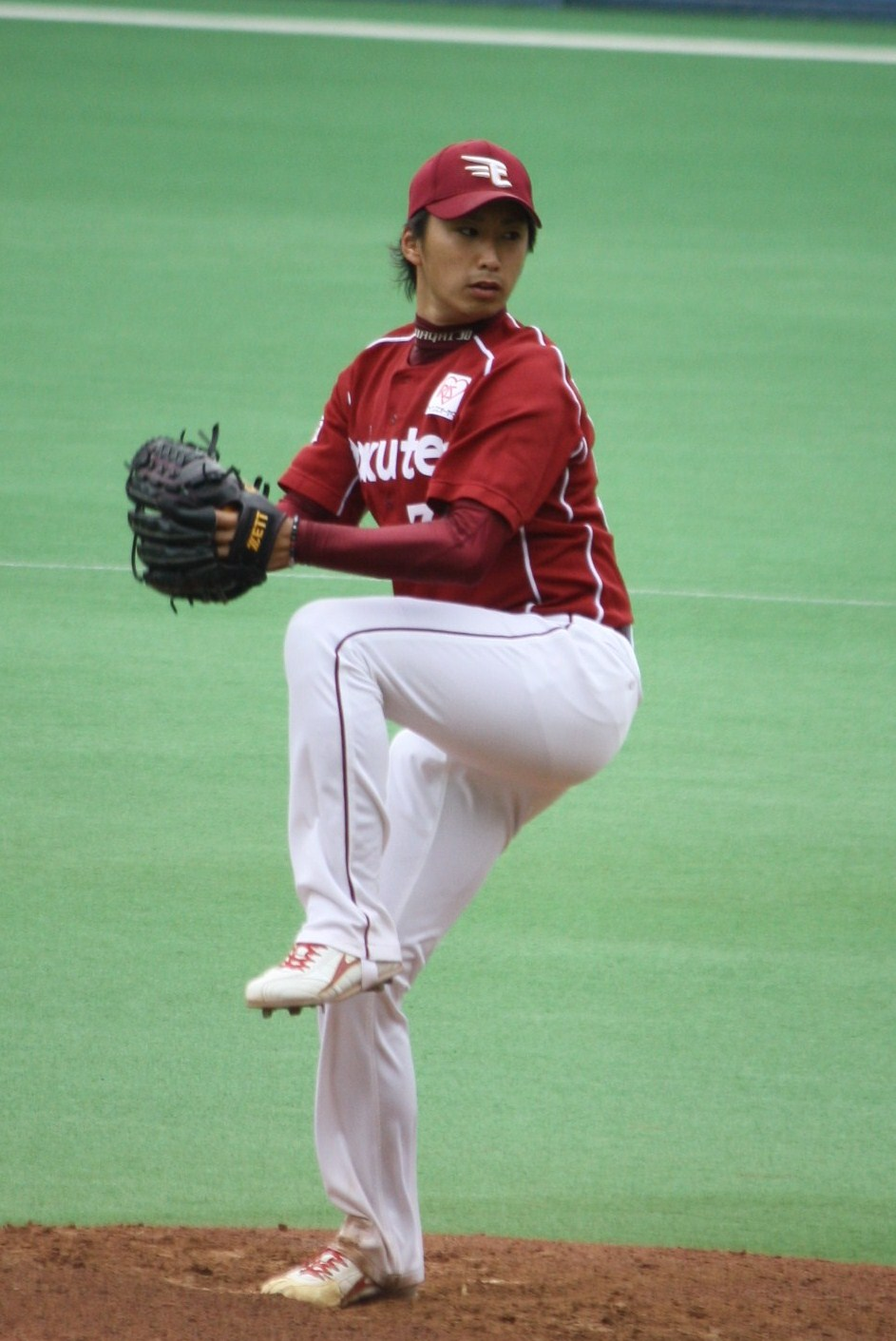 Satoshi Nagai begins to pitch.